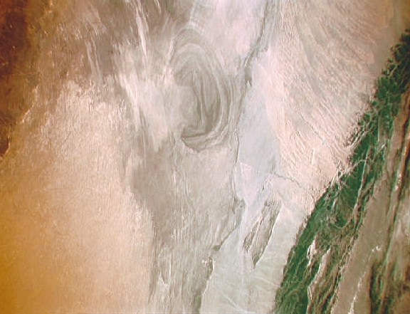 China, Xinjiang, desert Lop Nur. Satellite picture of the Basin of the formerly sea Lop Nur in the Desert of Lop Nur. In the foreground Kuruktagh, in the background Kumtagh and Astintagh.